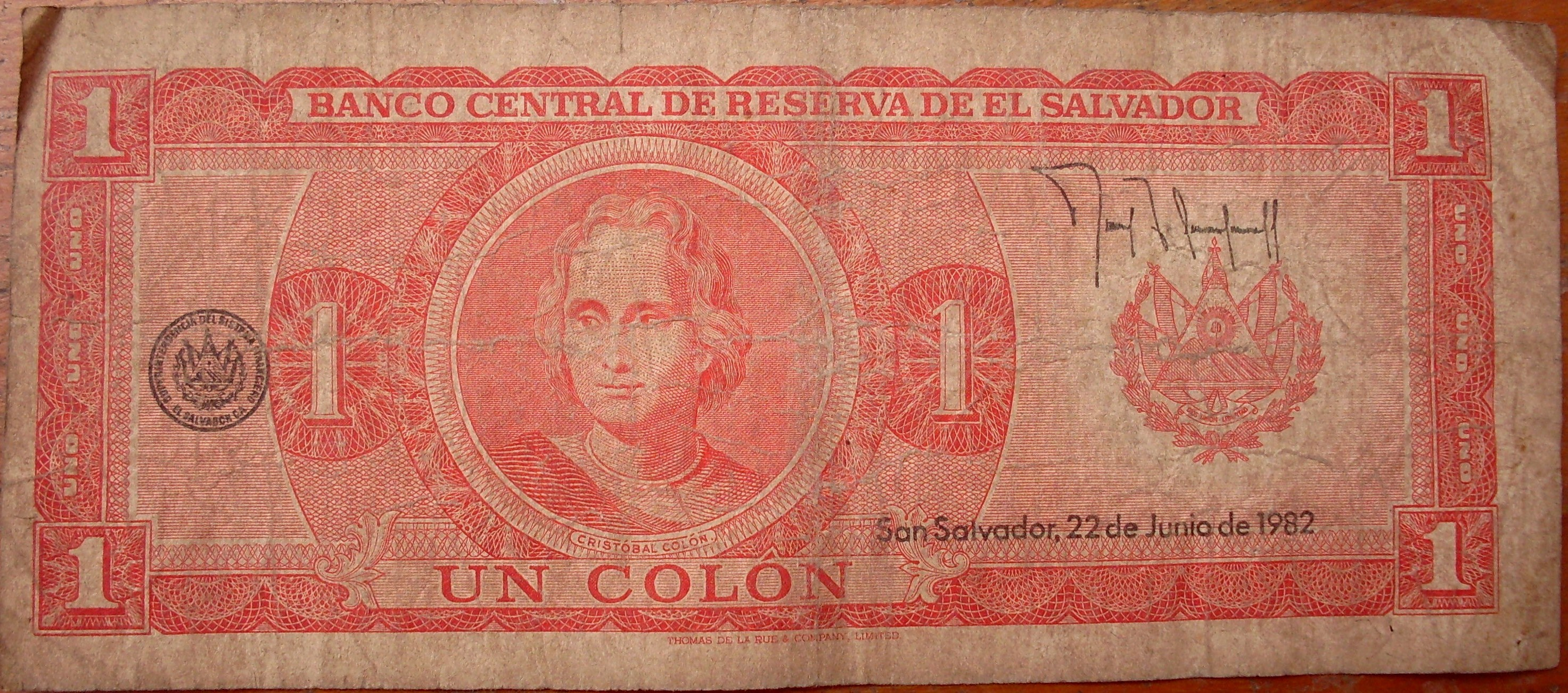 One colon bill from El Salvador.